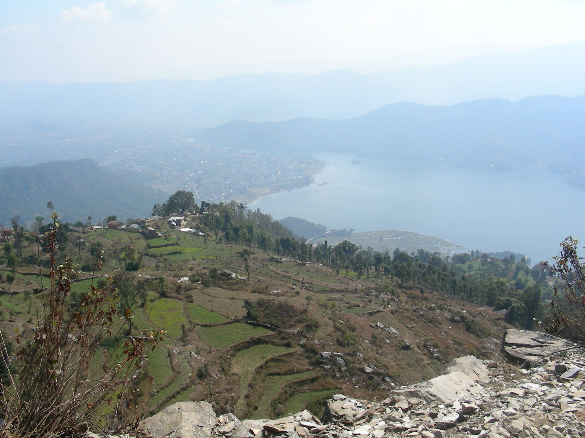 Sarankot Nepal. Over looking Pohara and Phewi Lake